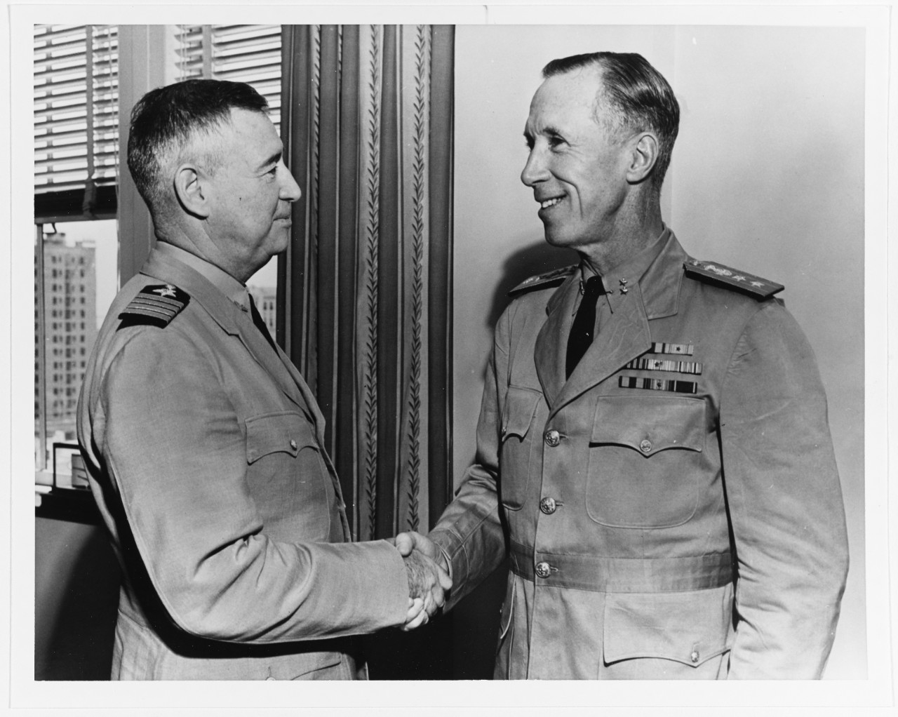 Rear Admiral Walter S. Anderson, USN (right), new commander of Gulf Sea Frontier is greeted by Captain Howard H. J. Benson, USN, July 1944.